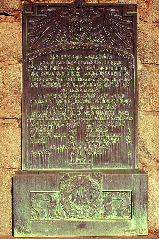 Plaquette on the so-called Reiterdenkmal in Windhoek, Namibia. The Reiterdenkmal symbolises the victory of the German coloniser over the revolt of the local Herero and Nama peoples.